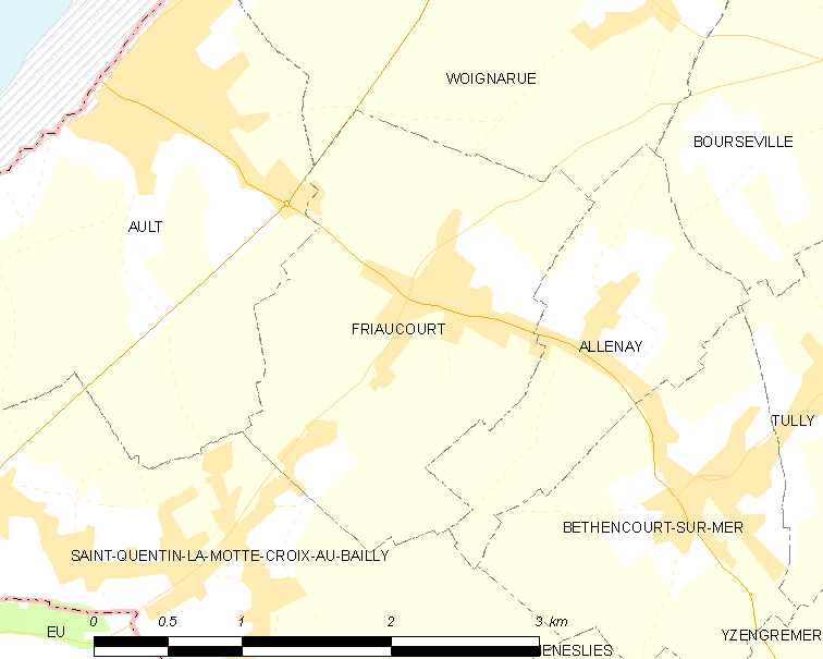 Map of French municipality Friaucourt